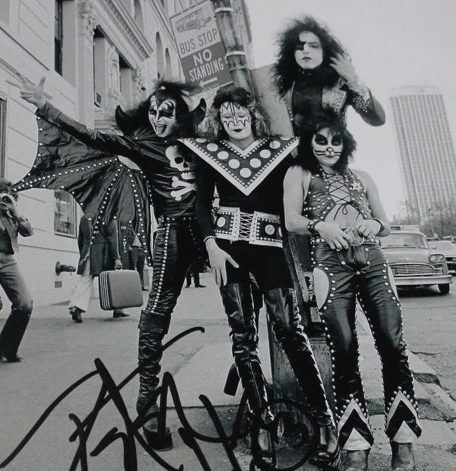 American rock band Kiss in Central Park (New York).